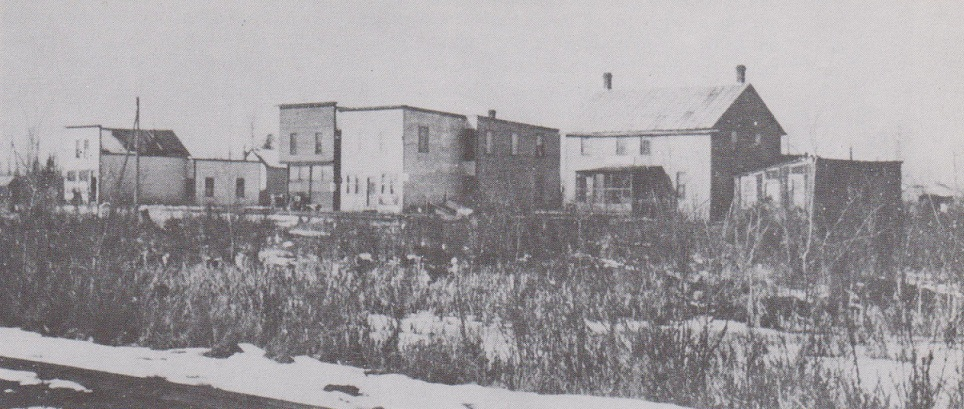 A photograph of Downtown Kennedy, Wisconsin